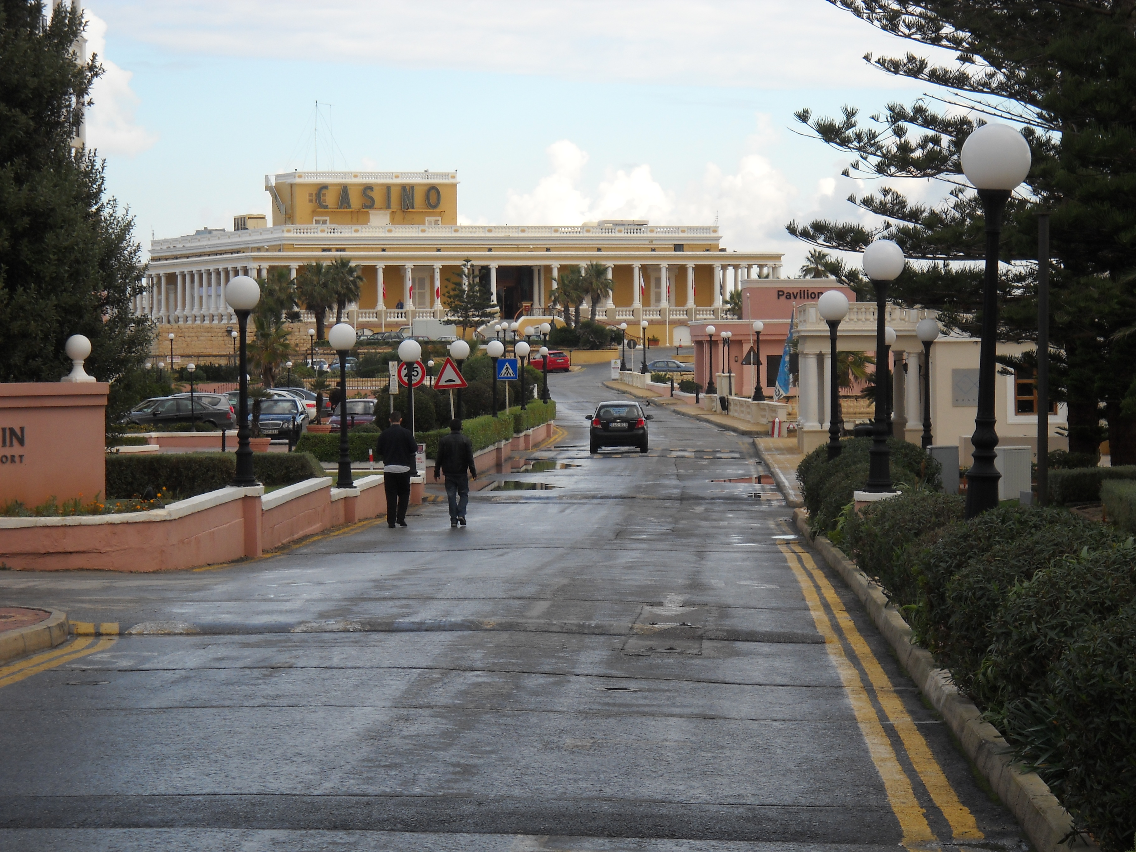 Casino in Malta (St Julians bay).